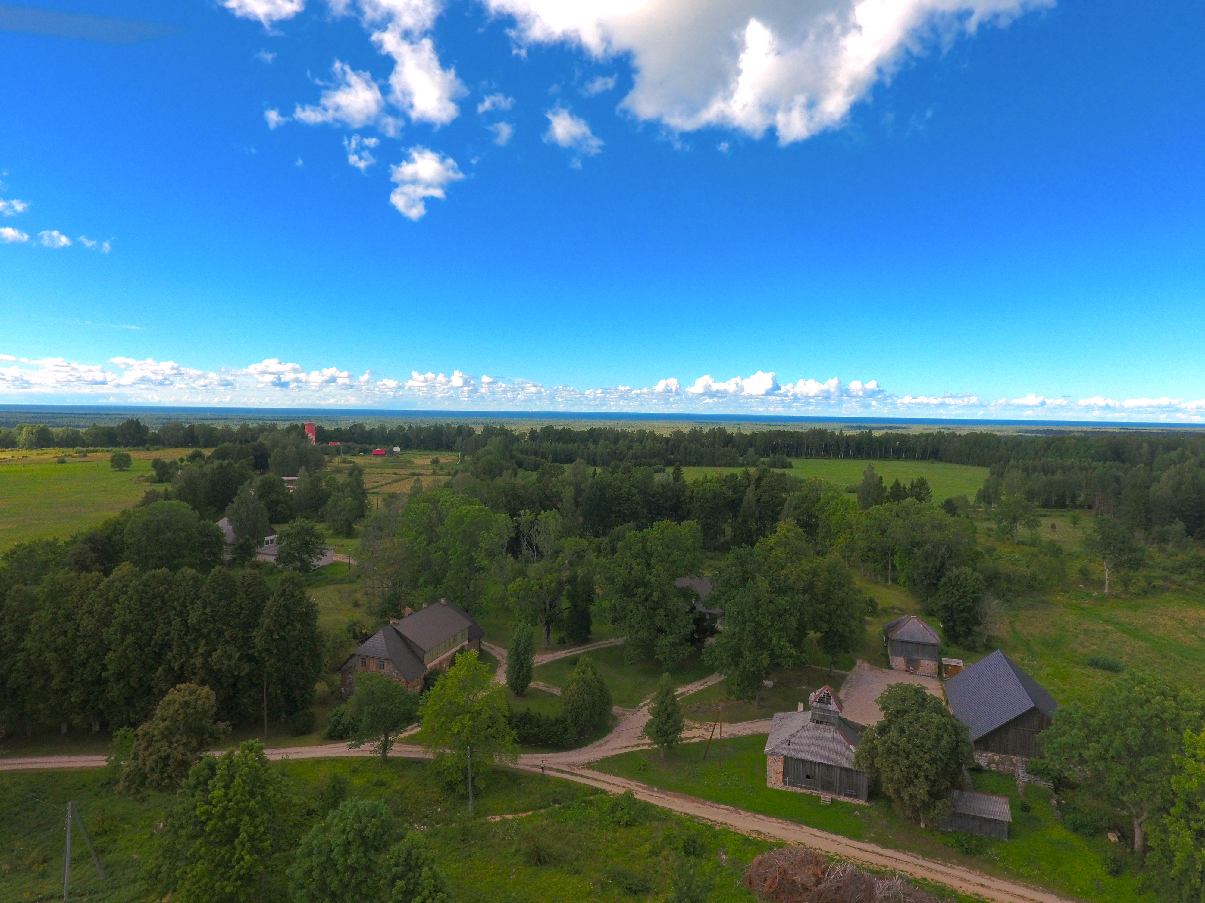 View toward the Slīteres lighthouse, from the south-east. In the background, the Irbe strait (Baltic sea).